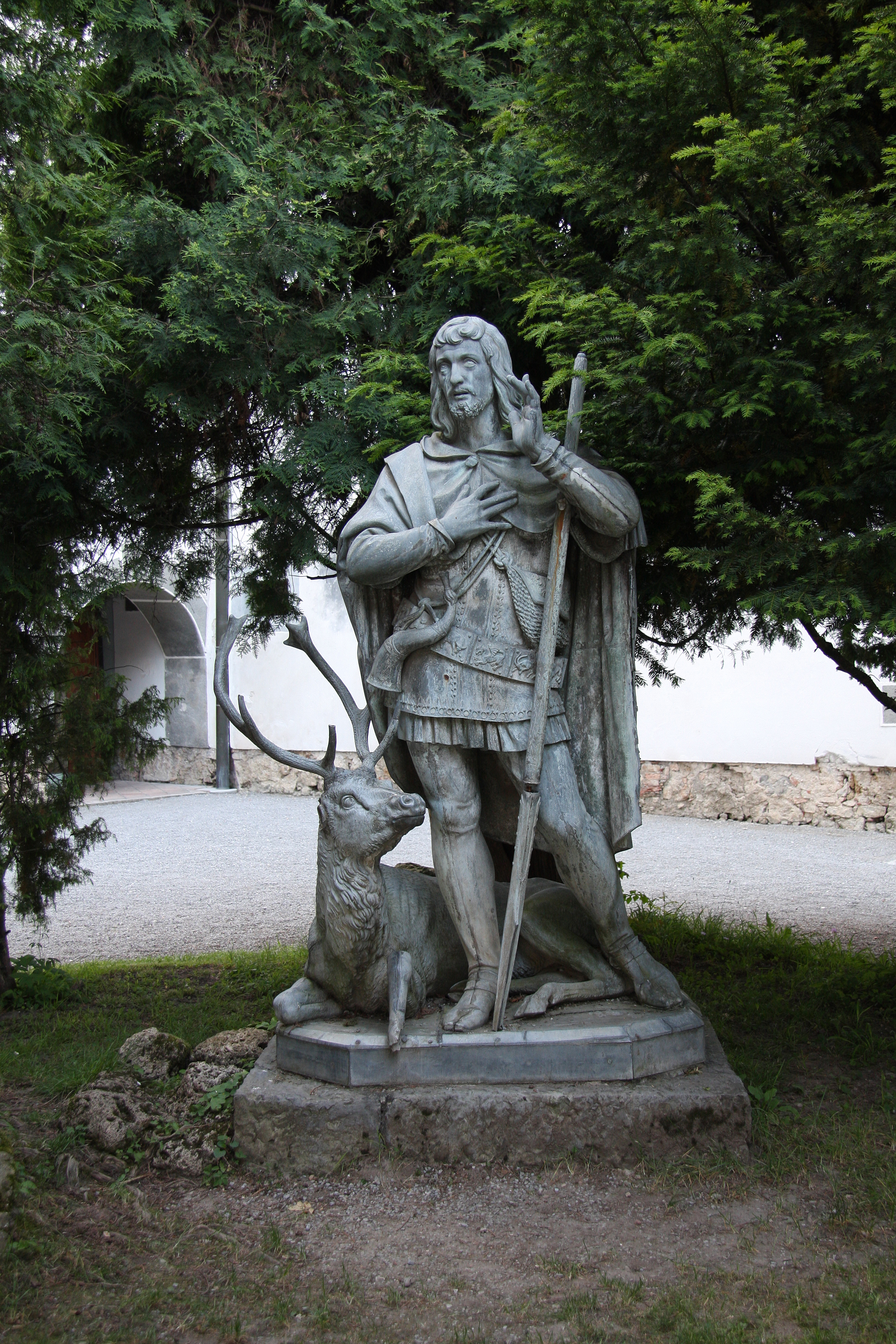 Statue of St. Hubertus on the Bistra castle's courtyard. It was created by Adam Rammelmeyer and cast by Kari Mohrenberg in 1846. Classicist style.